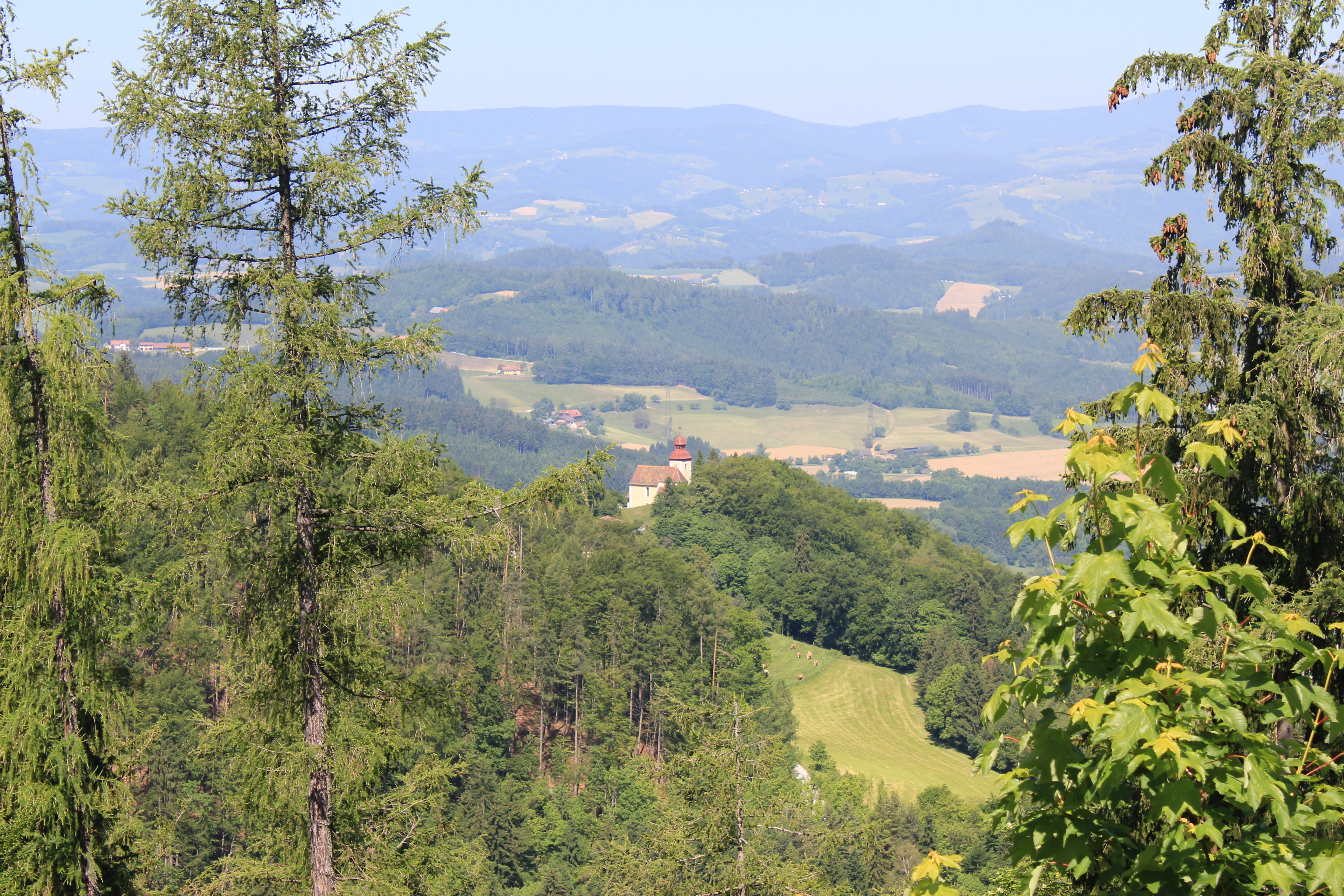 Johannessberg-church in Sankt Paul im Lavanttal